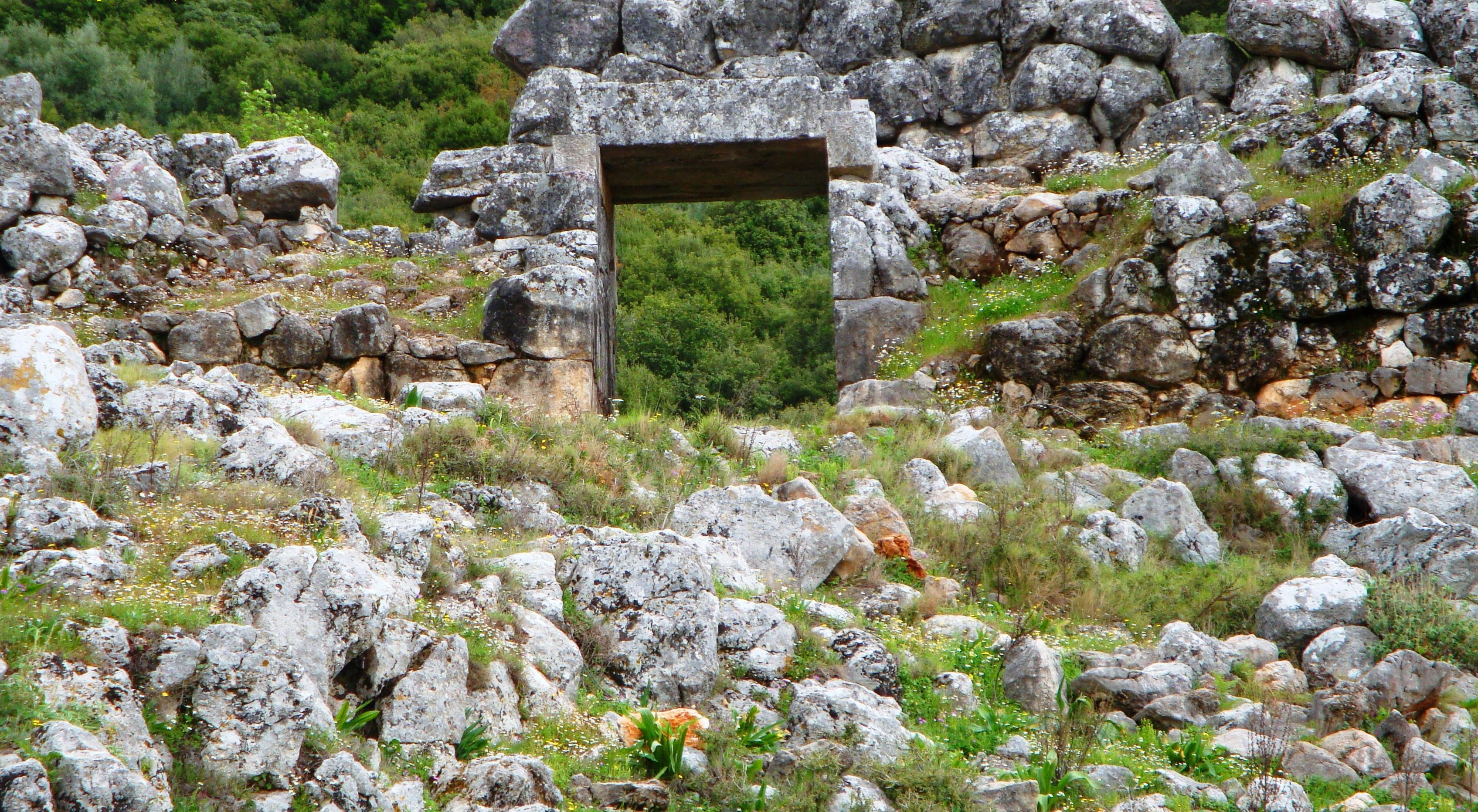 Elea, Thesprotia, Greece, west main gate